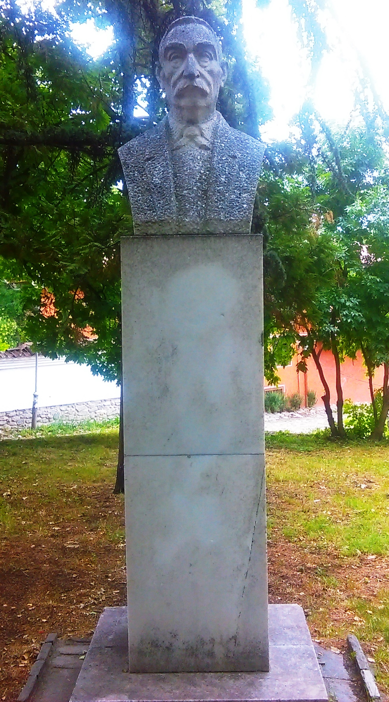 Ivan Bogorov memorial in Karlovo